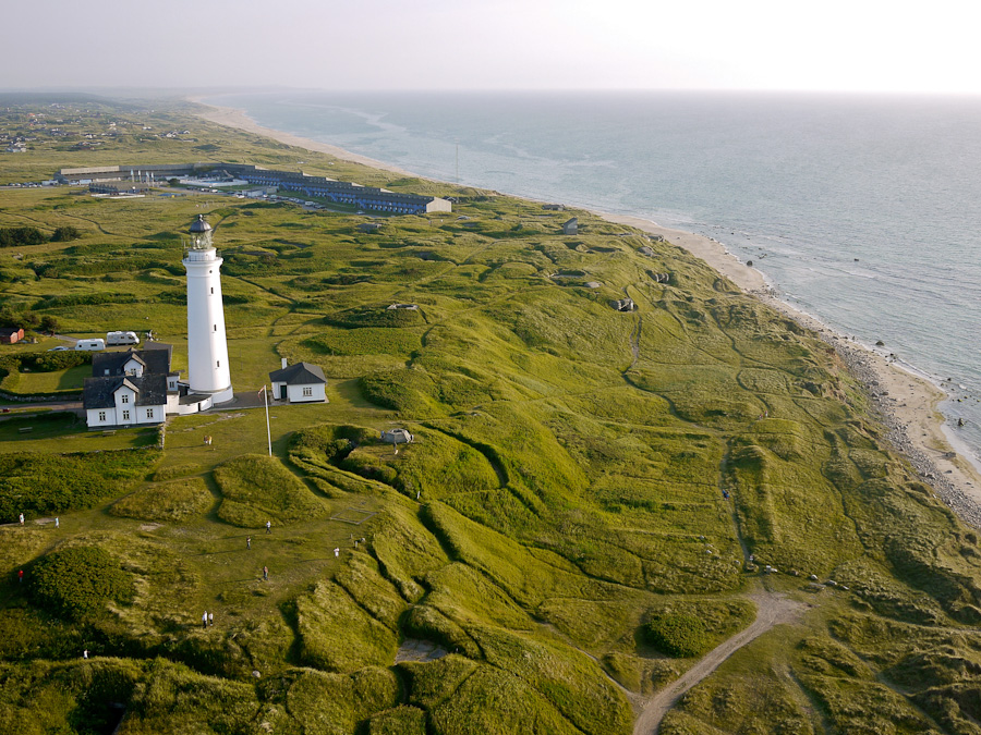 The lighthouse in Hirtshals and the beach area, on the Skagerrak in Denmark. Aerial photograph, showing the remains of the Atlantic Wall (WWII).